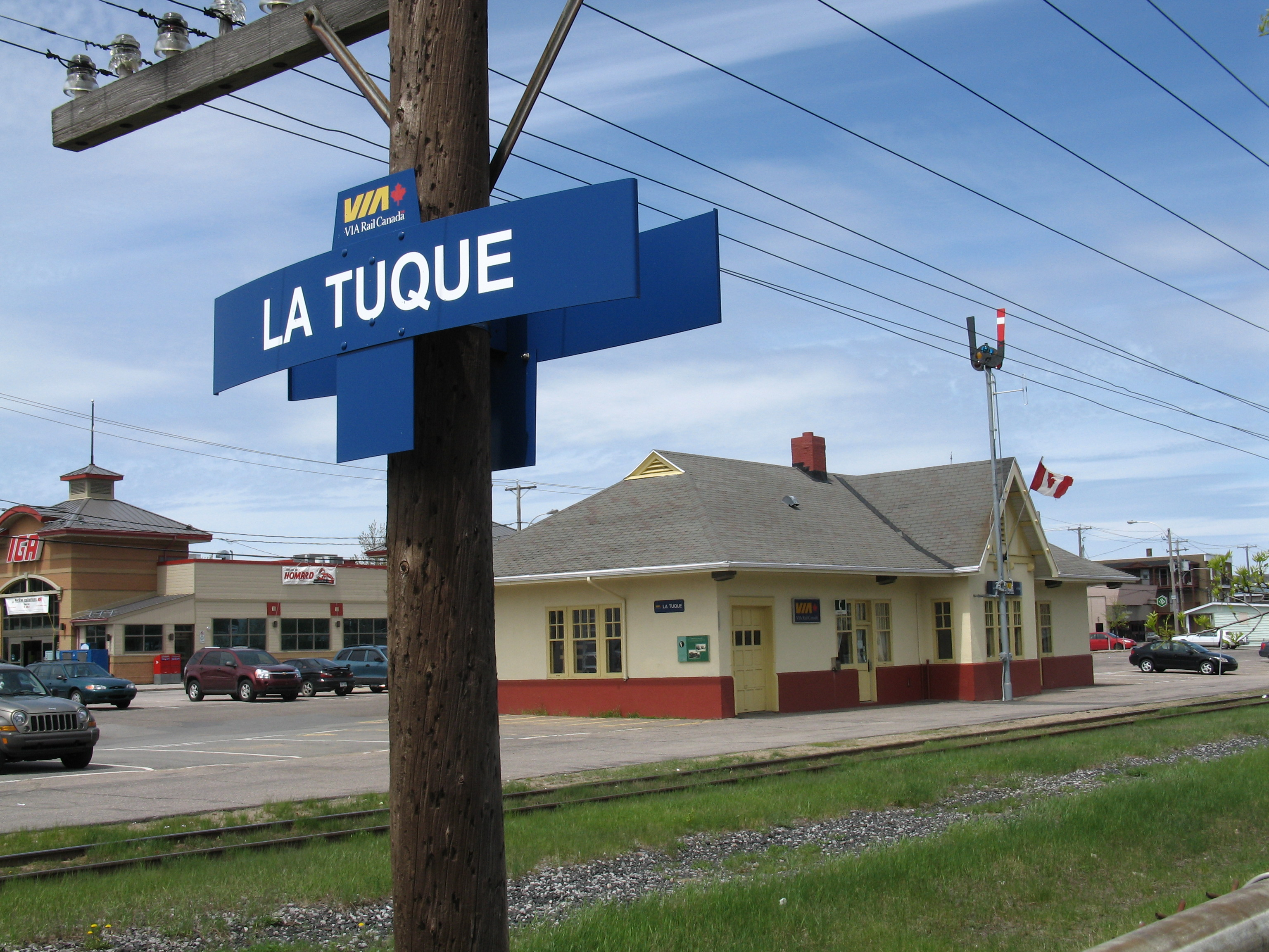 Via Rail train station in La Tuque, Québec